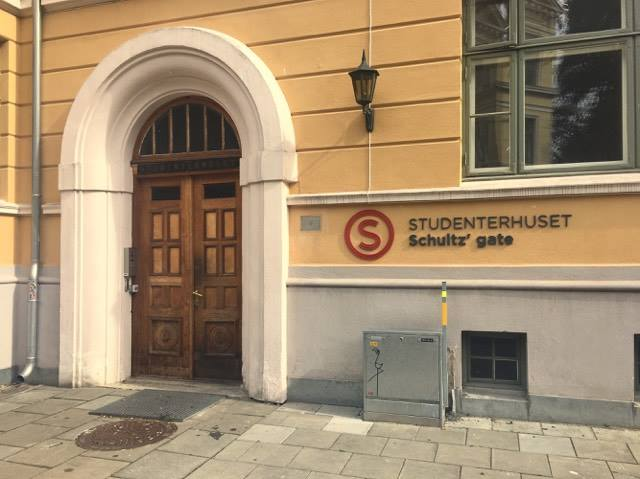 Studenterhuset in Schultz' street in Oslo